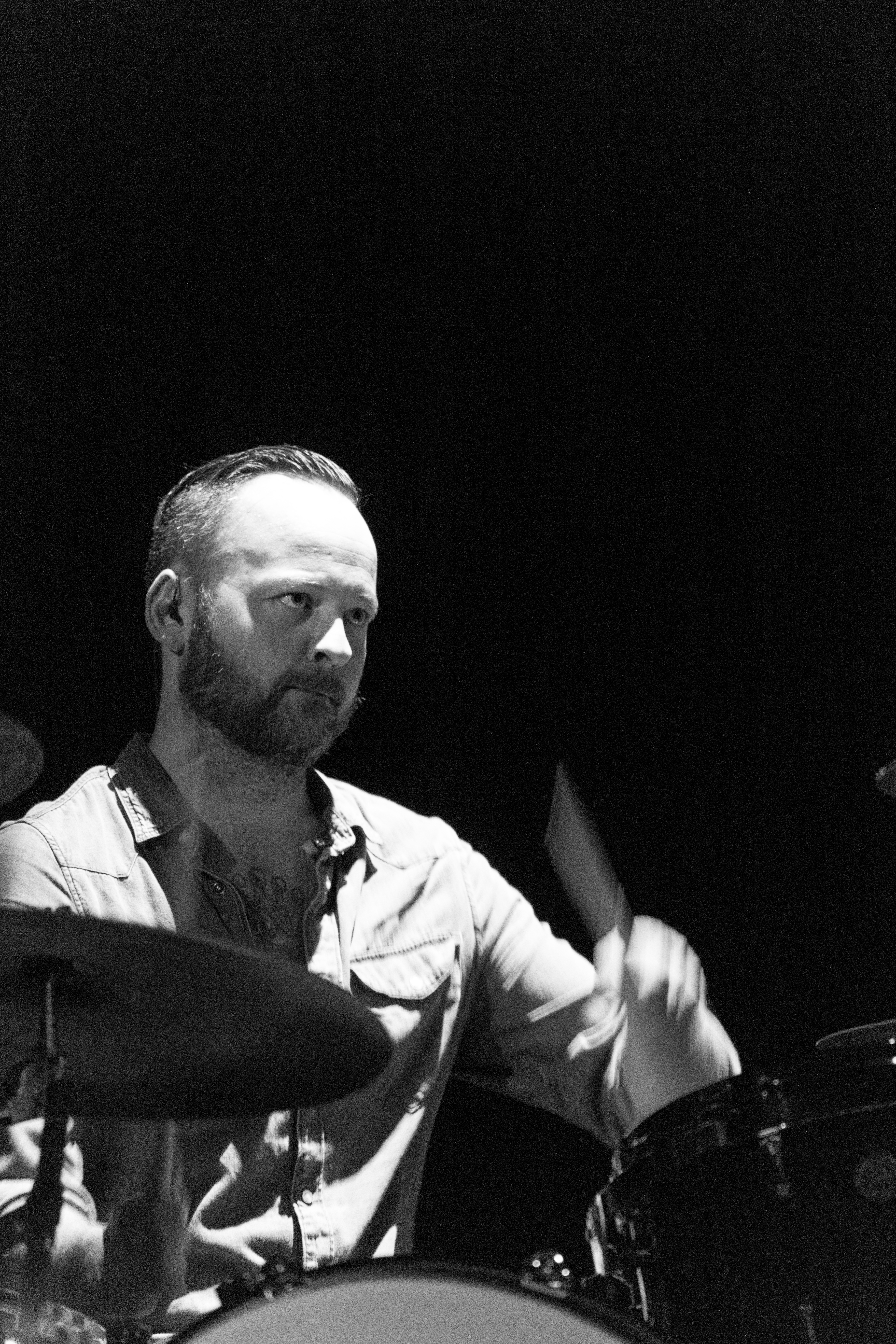 Sólstafir performing at Roadburn Festival, april 2015